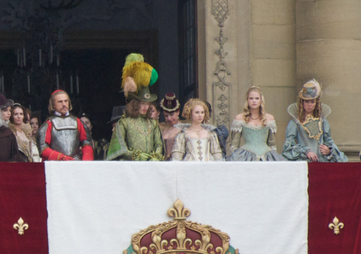 Behind the scenes photo of a balcony shot of the 2011 version of the Three Musketeers, being filmed at the the Residenz in Würzburg Bavaria. From left to right: Christoph Waltz, Freddie Fox (in green doublet), Juno Temple, Gabrielle Wilde and Nina Eichinger